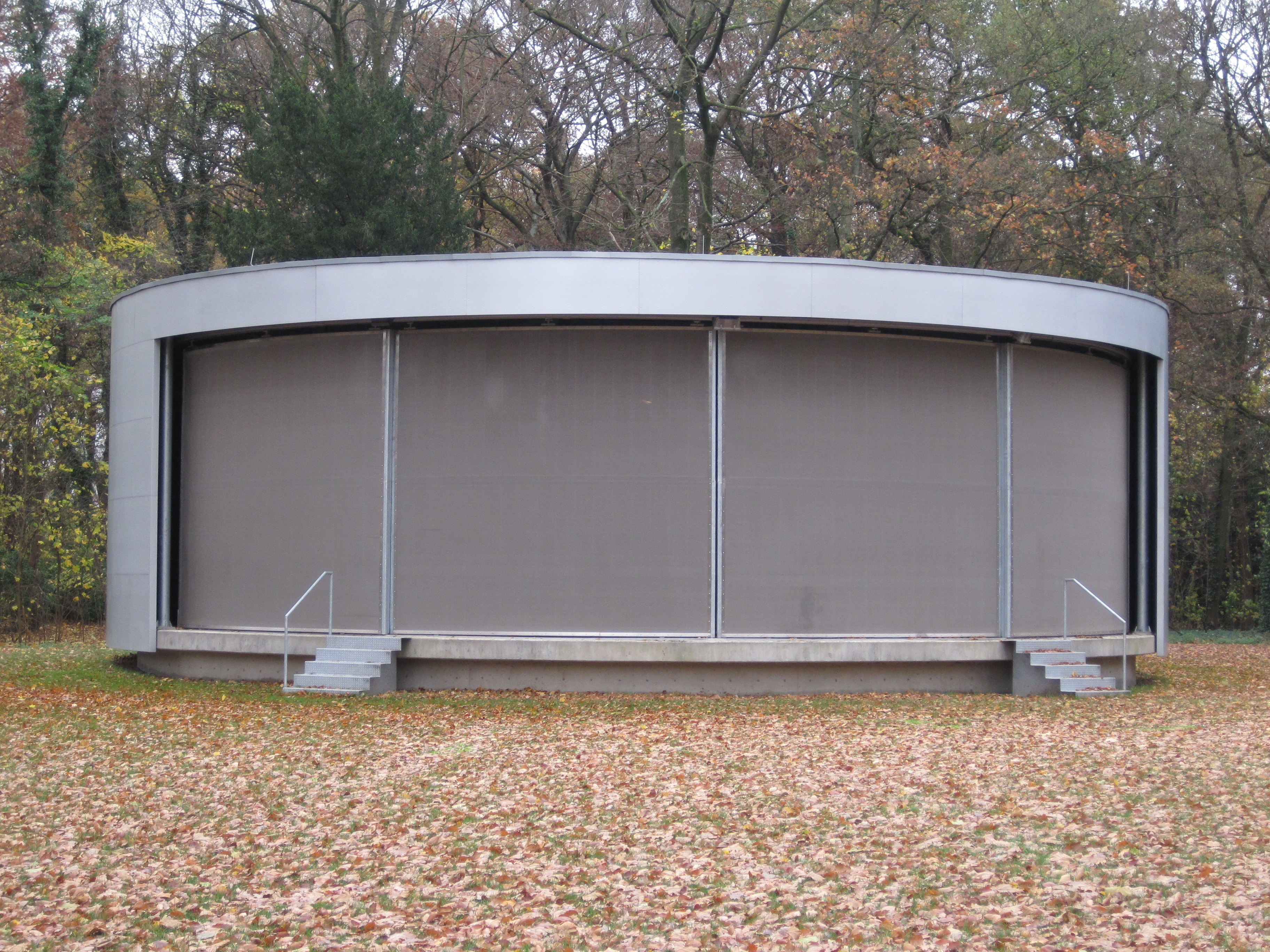 The new music pavilion in the spa gardens.